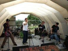 The InCiders on stage at Endorse It In Dorset 2004.